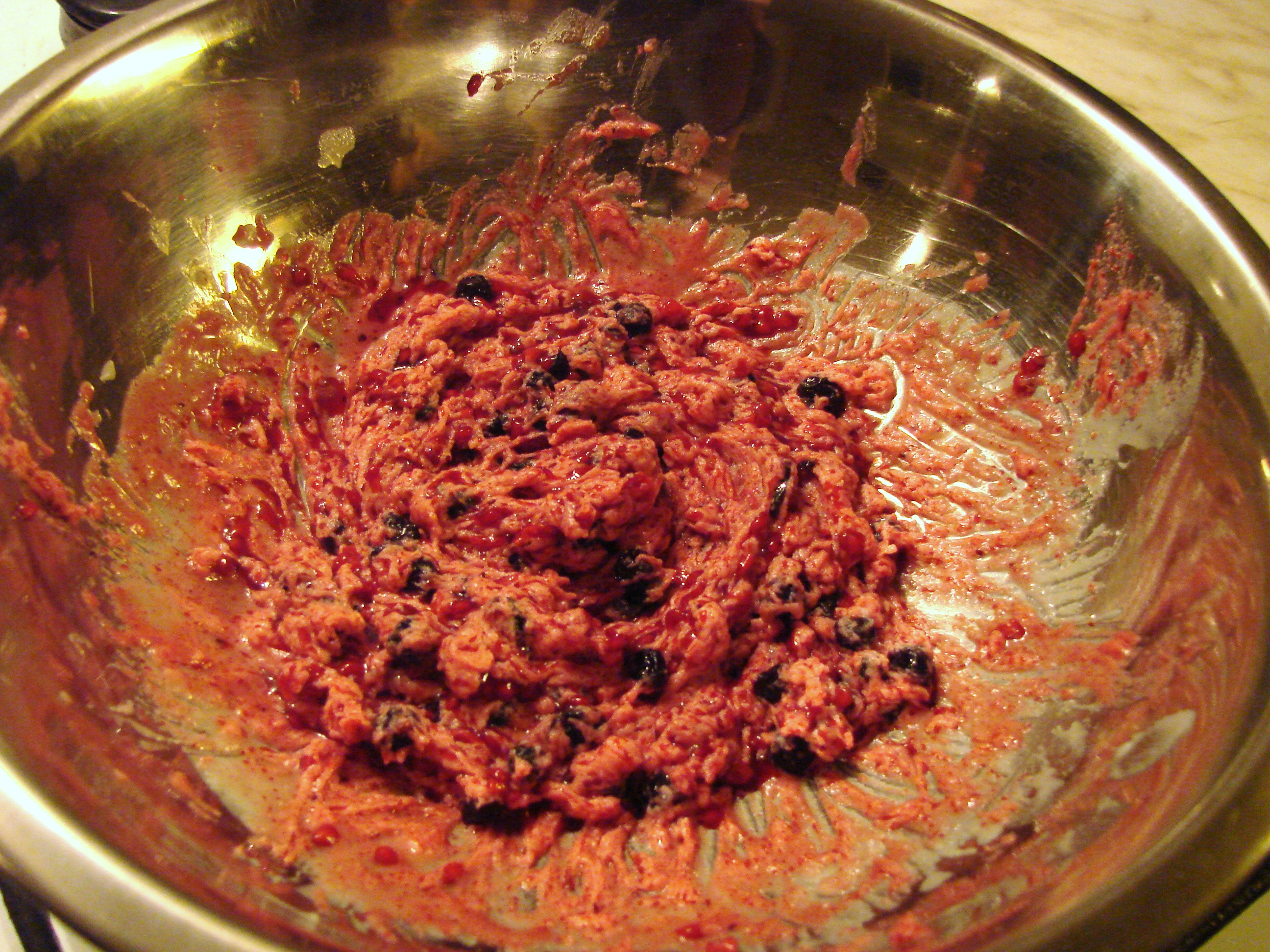 Akutaq, a traditional Alaskan native dish. This one is made from vegetable shortening, blueberries, raspberries and sugar.